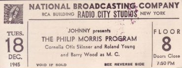 Ticket for Philip Morris Program broadcast of 18 December 1945. Copyright details There are no copyright markings on either side of the ticket, which was produced for distribution to the public for admission to the Philip Morris Program radio show as part of the studio audience on the day shown on it. The item can be dated by the date the ticket was valid. It was issued as a promotional item--the intention being promotion of NBC Radio and the Philip Morris Program by way of allowing a listener/ticket holder to be part of the radio show's studio audience on a given day. Tickets for radio and television shows are given for the asking by networks and broadcasting stations; the front of the ticket says "Void if sold." From Cornell University: Cornell University The Cornell information indicates this image is in the public domain: "For works first registered or publisher in the US: "1923 through 1977 "Published without a copyright notice "None. In the public domain due to failure to comply with required formalities."